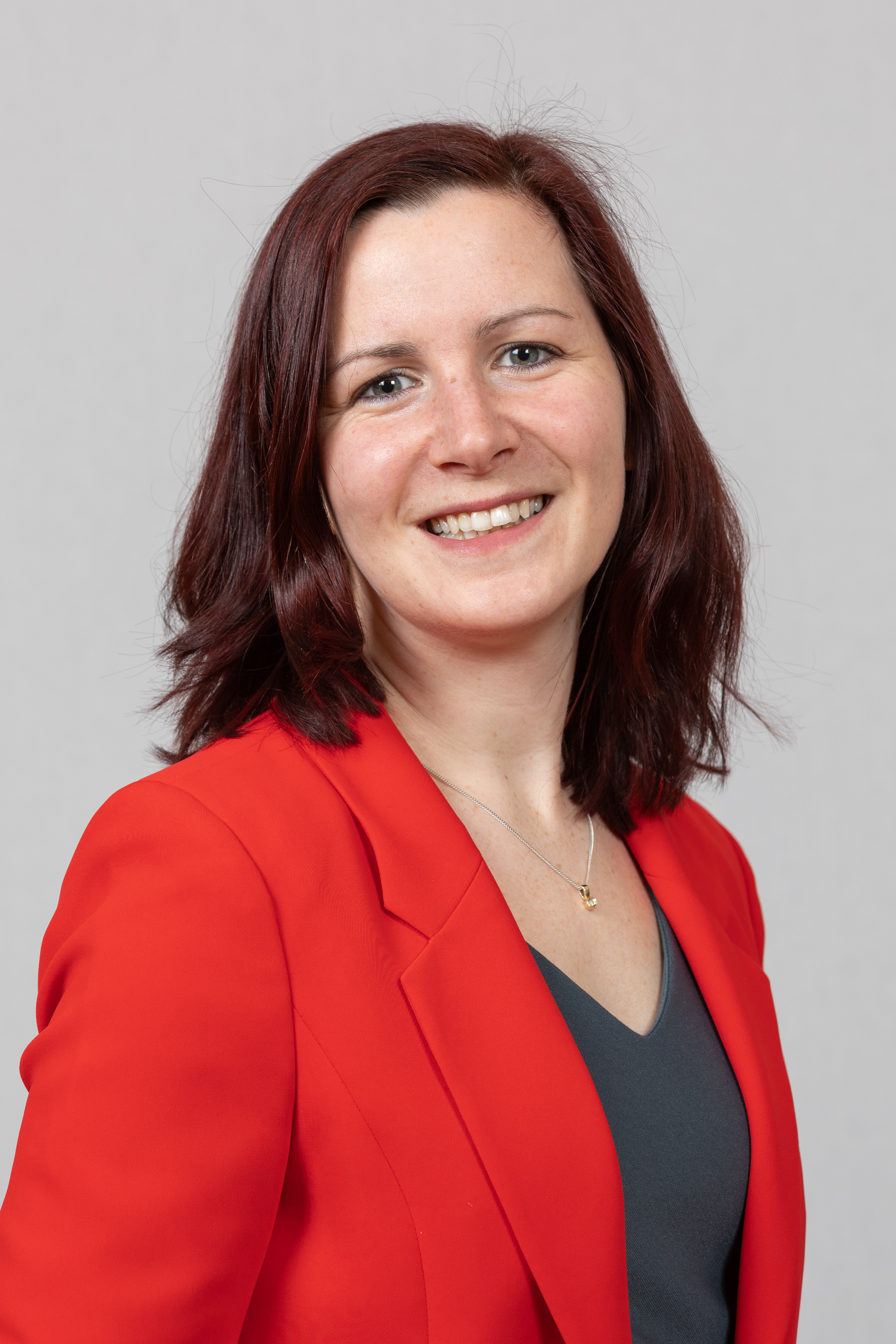 Kaya Kinkel, Landtag of Hesse, Wiesbaden, April 3rd, 2019